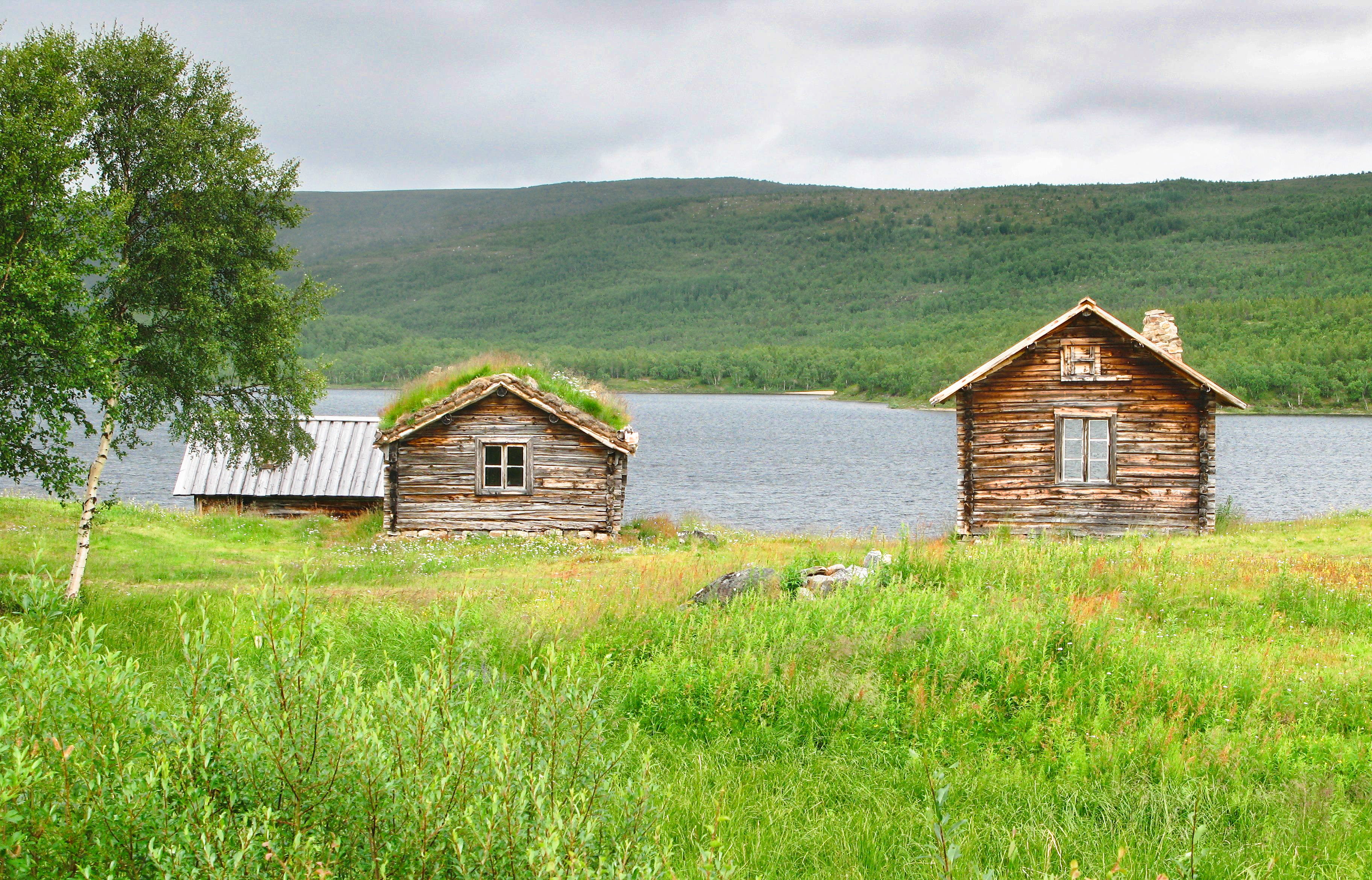 Old log cabins by Mantojärvi-lake near Utsjoki parsonage, Finland